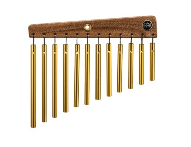 Meinl CH-12 Chimes.